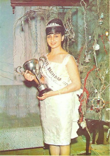 ملكة جمال العراق 1963